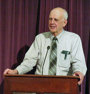 Wendell Berry speaking in Frankfort, Indiana.